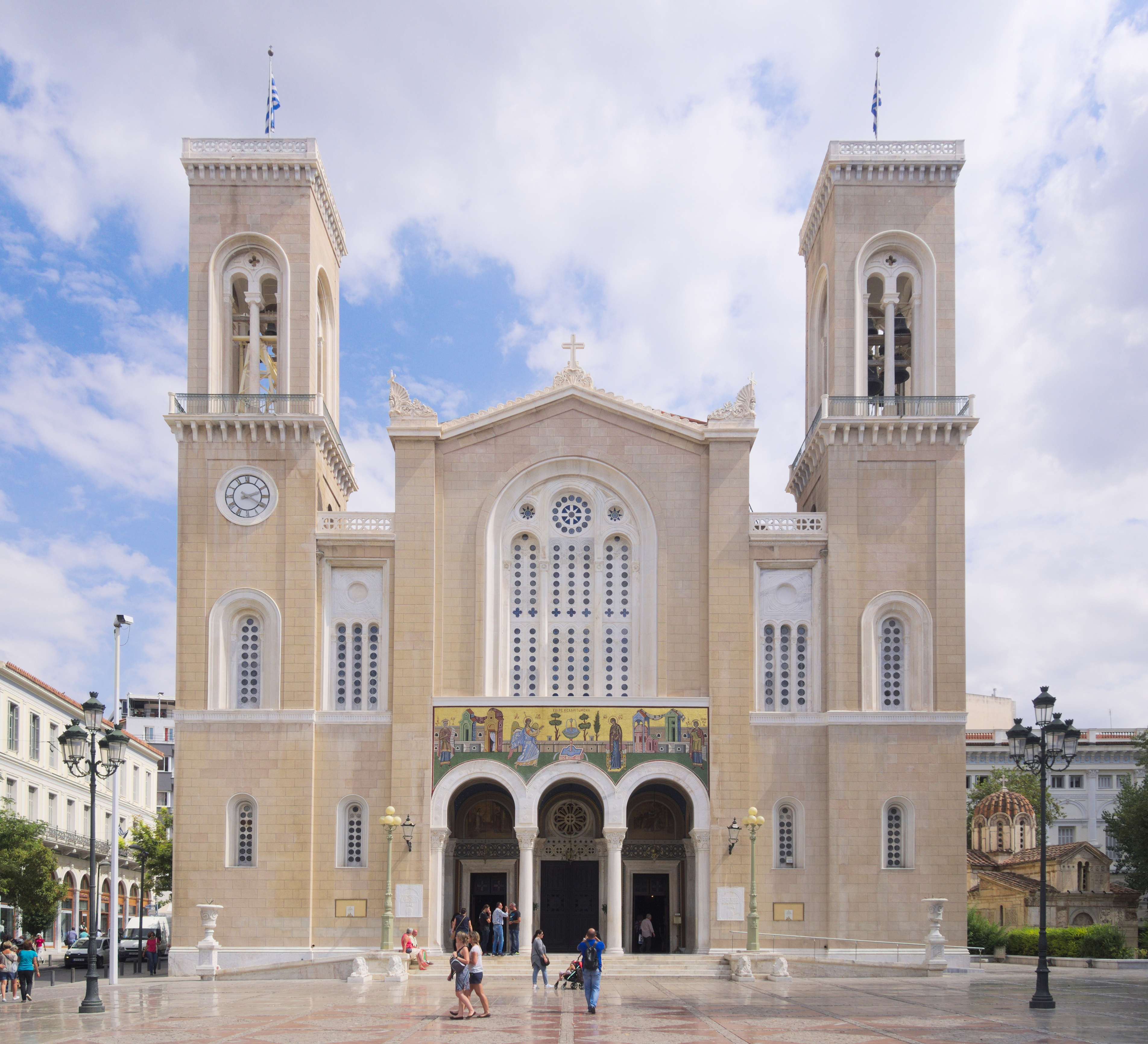 The Metropolis of Athens in 2016, after the end of the repair works of the damage caused by the 1999 Athens earthquake.